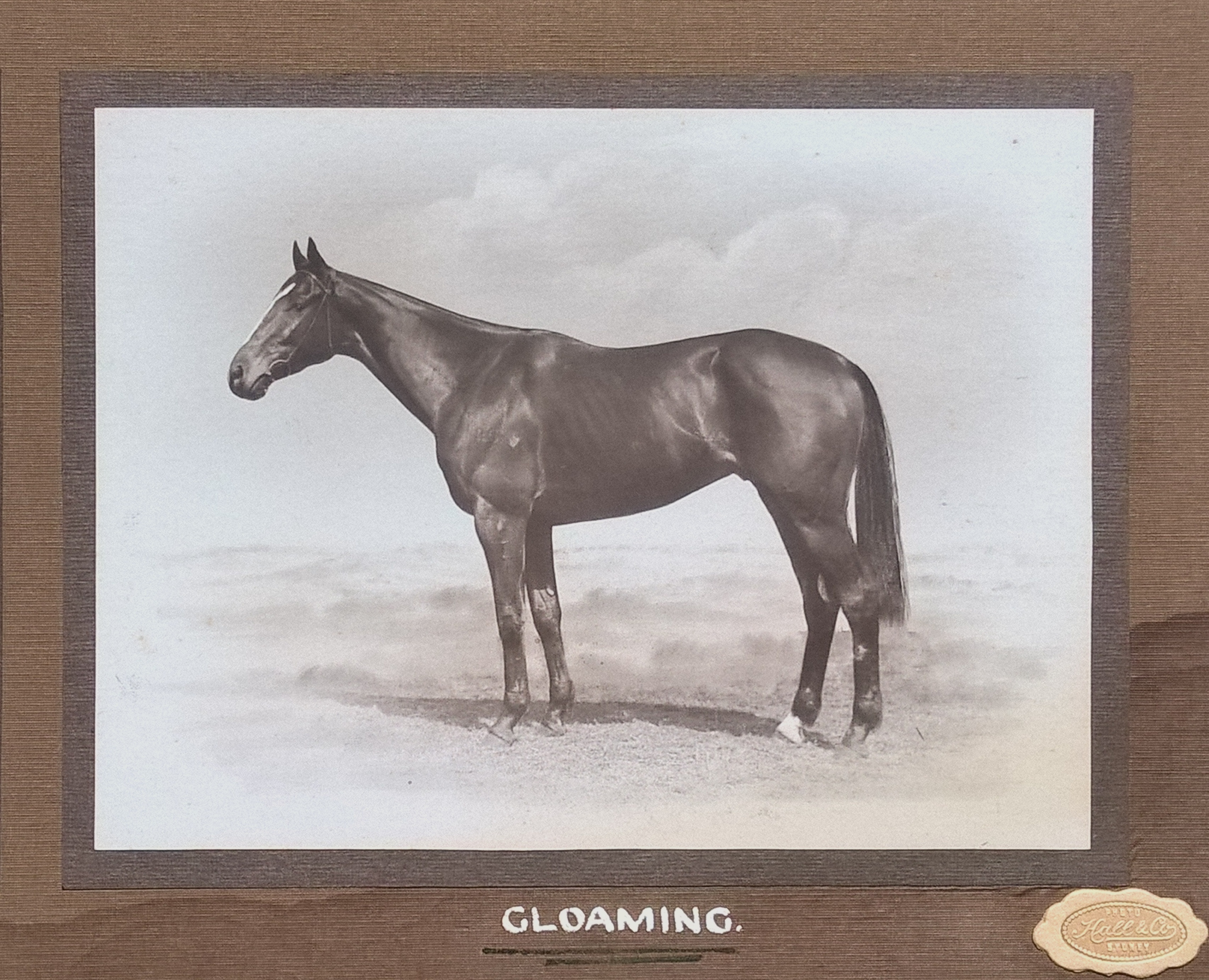 Copied from original photo